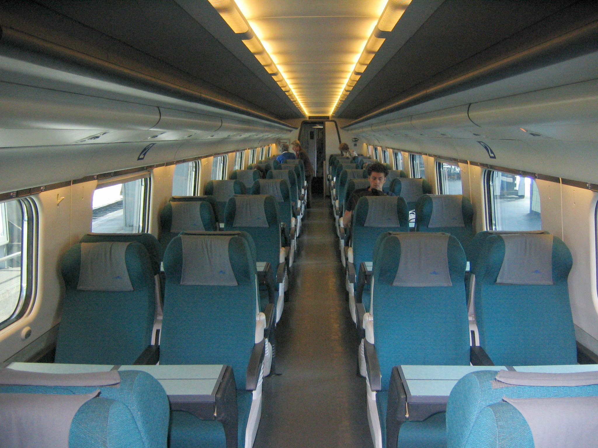 Inside of a CISAlpino in Stuttgart, Germany